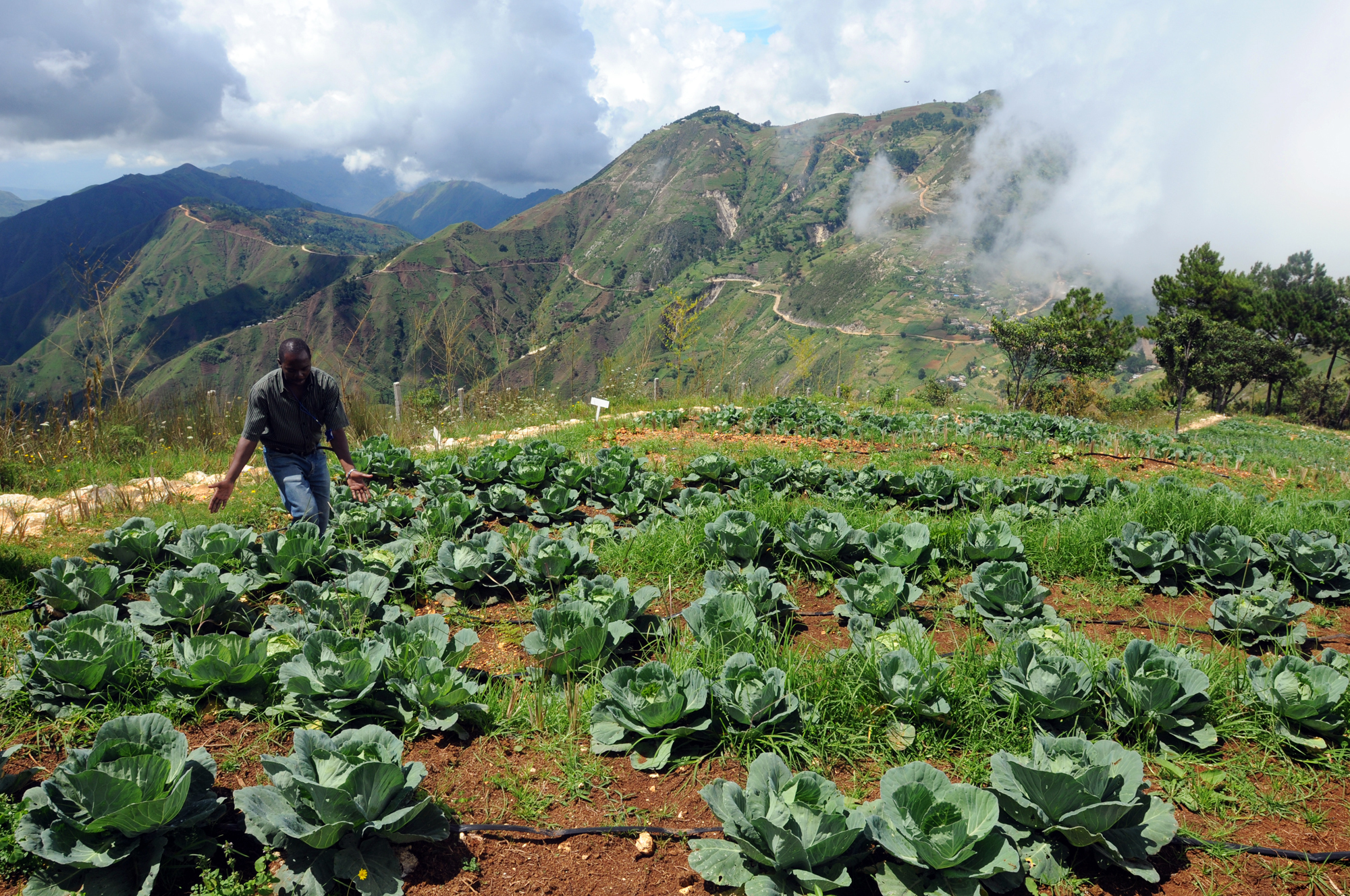 Amid rows of cabbage, John Atis talks about the crop grown at the Wynne Farm, a mountaintop training facility for farmers in Kenscoff, Haiti. Atis is the Kenscoff regional director for USAID's Watershed Initiative for National Natural Environmental Resources (WINNER) program. WINNER is a five-year, $126 million dollar project to build Haiti's agricultural infrastructure, capacity, and productivity in a sustainable way.